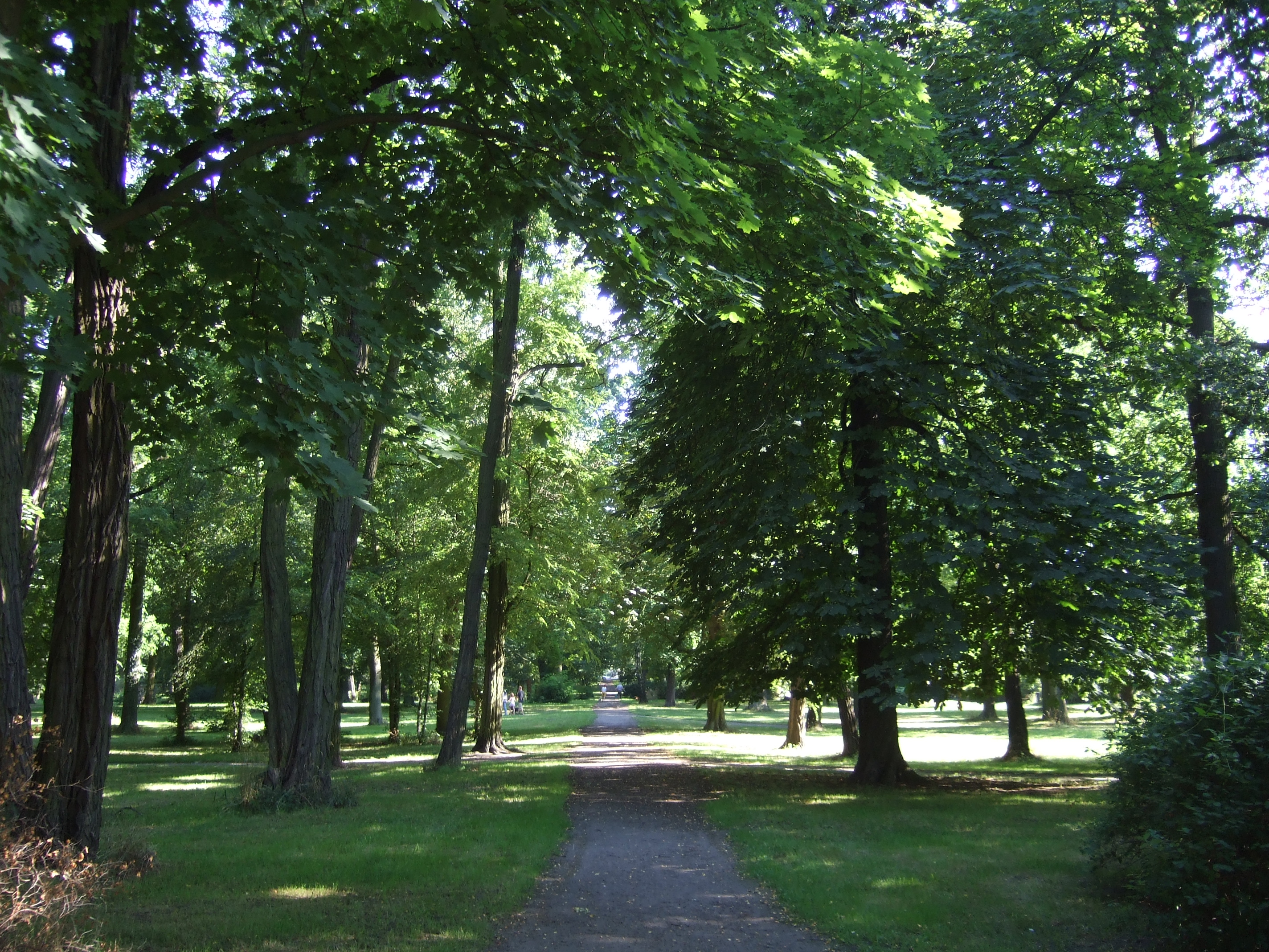 Kleistpark Frankfurt (Oder), Germany. View south from North East corner.